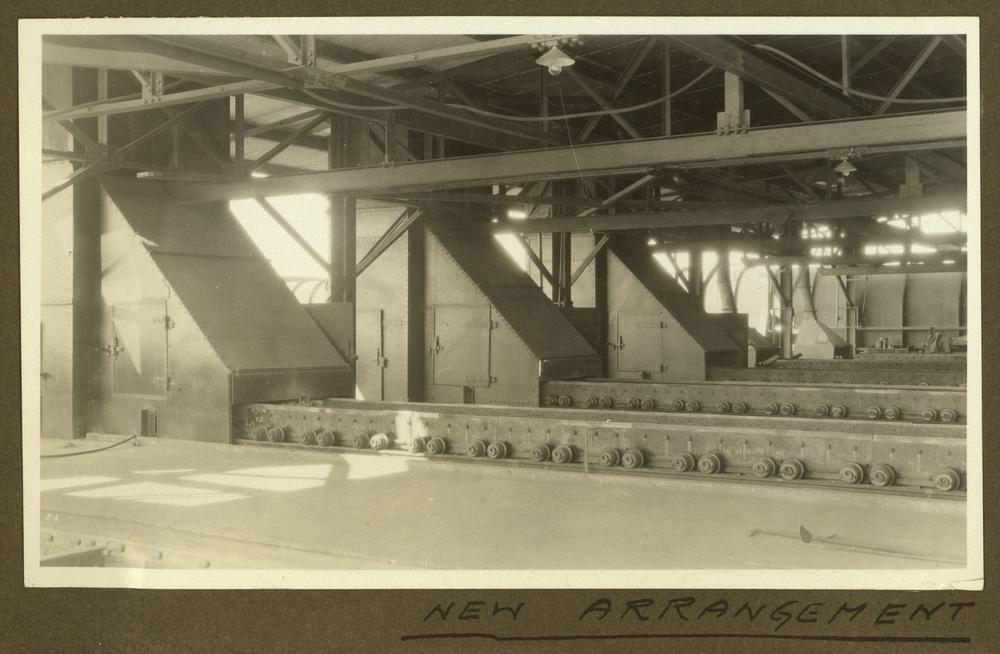 Arrangement of D & L machinery in the smelter, Mt. Isa Mines, 1932